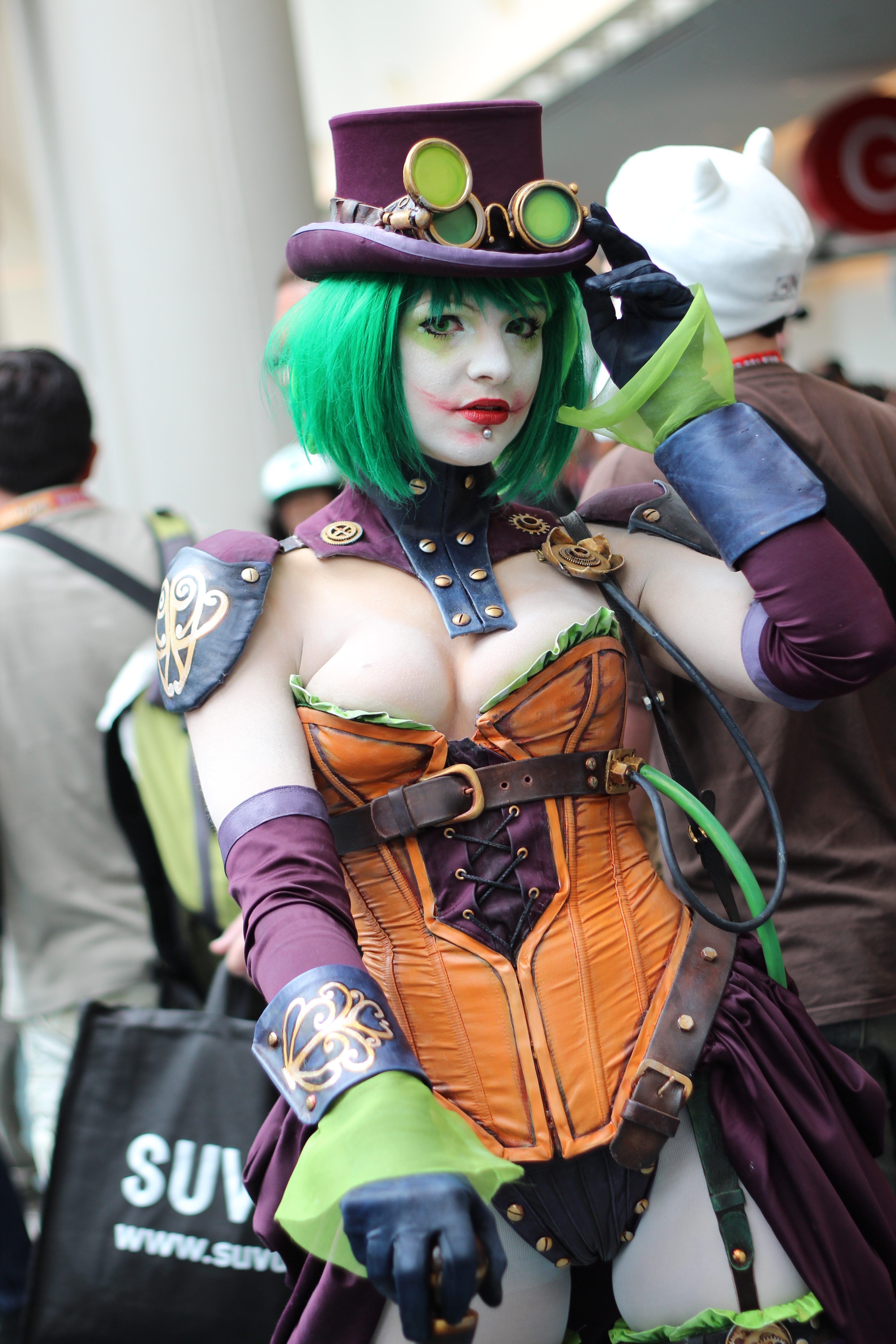 Cosplay at San Diego Comic-Con (SDCC 2012).